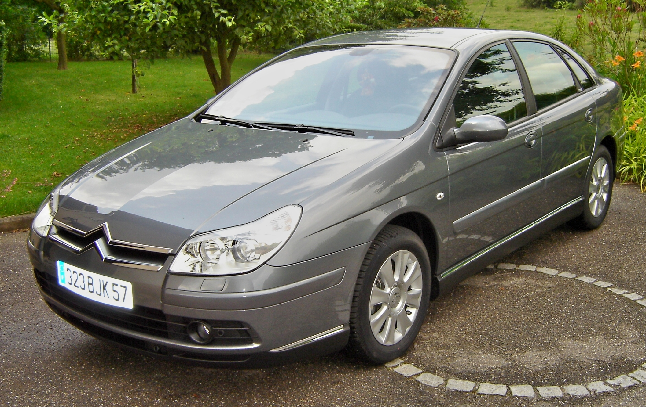 Citroen c5